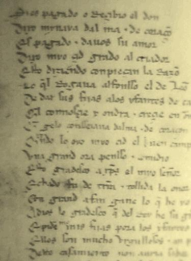 A page of a print of the original codex known conventionally as the Lay of the Cid, Poema del Cid or Cantar de Mio Cid, held at the Biblioteca nacional de Madrid – transcription and translation see below.